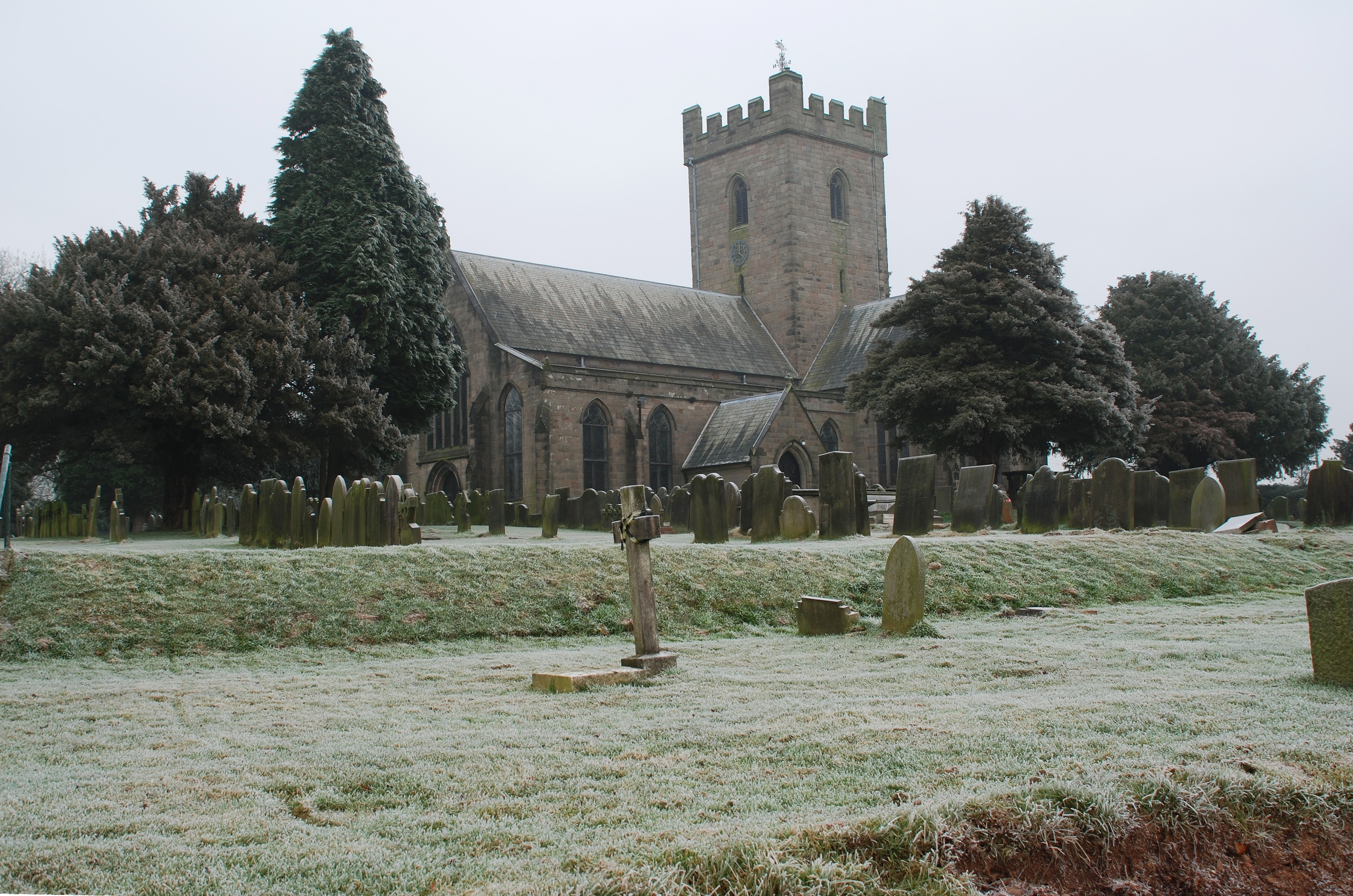 Church of All Saints, Church Leigh, Staffordshire